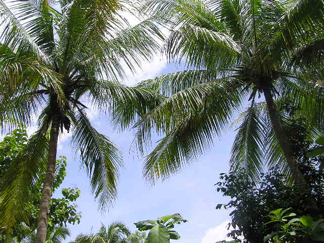 Palm trees of unknown species. Identification is appreciated.